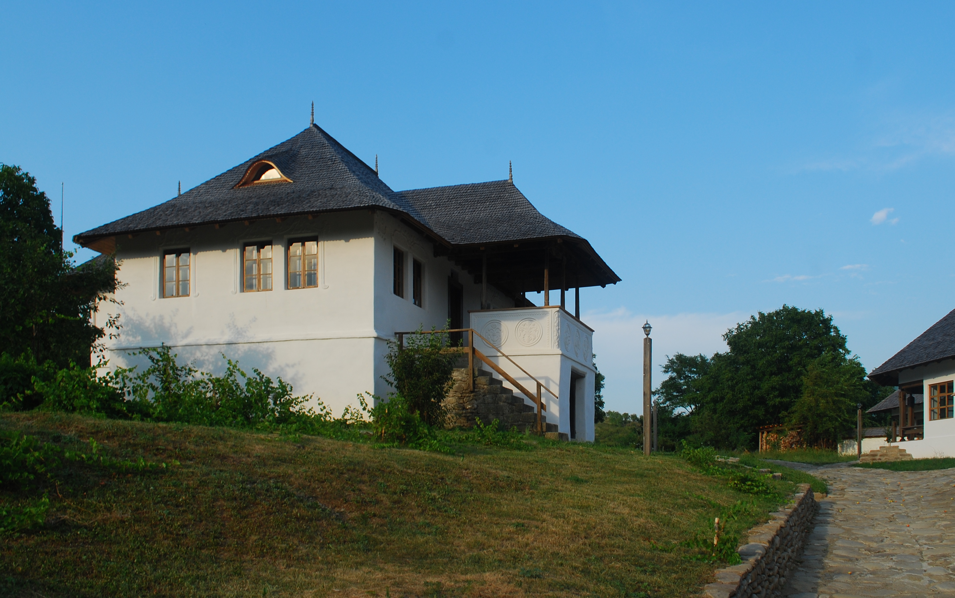 The "Blazon House" in Chiojdu, Buzău County, RomaniaRomână: „Casa cu blazoane” din Chiojdu, județul Buzău, România